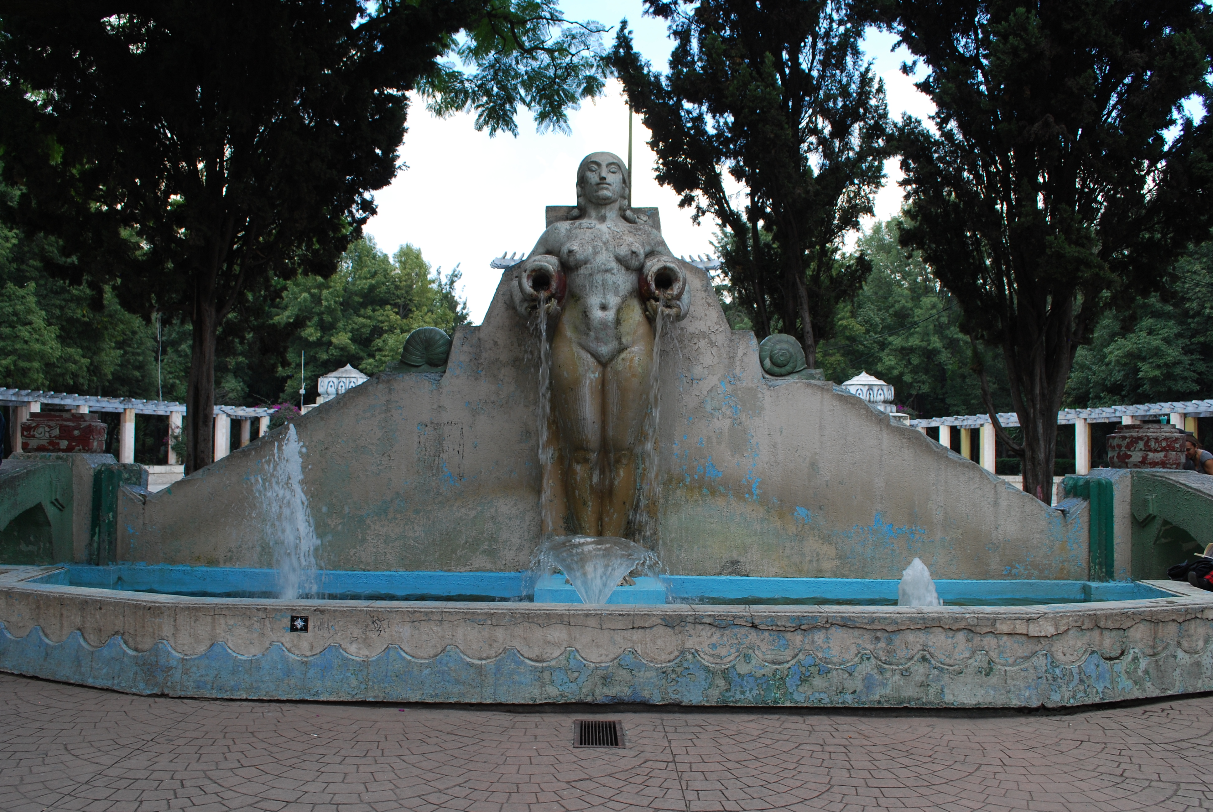 Fountain with woman with jars in Parque Mexico in Mexico City